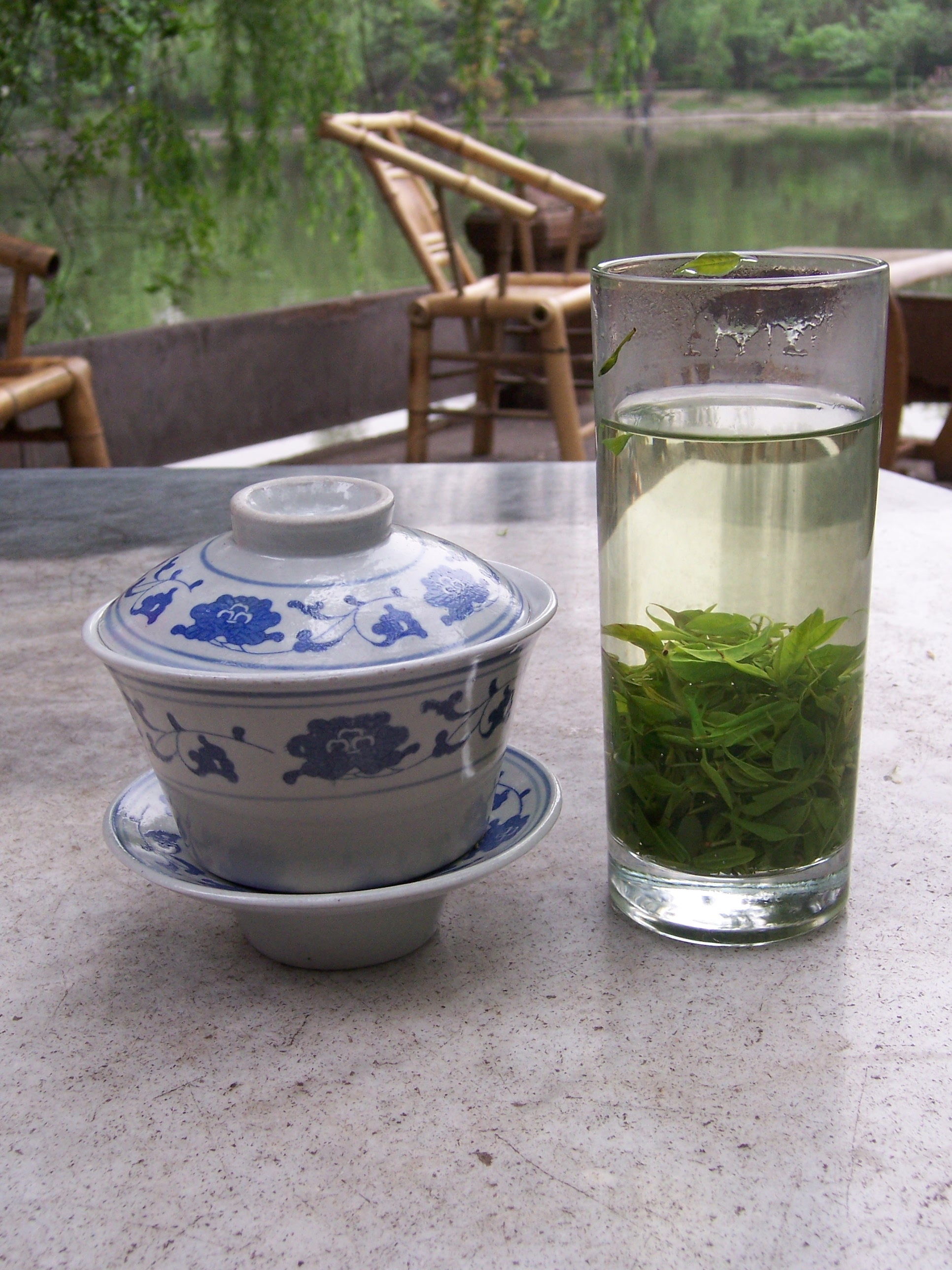 China - Chengdu 4 - green tea in the park